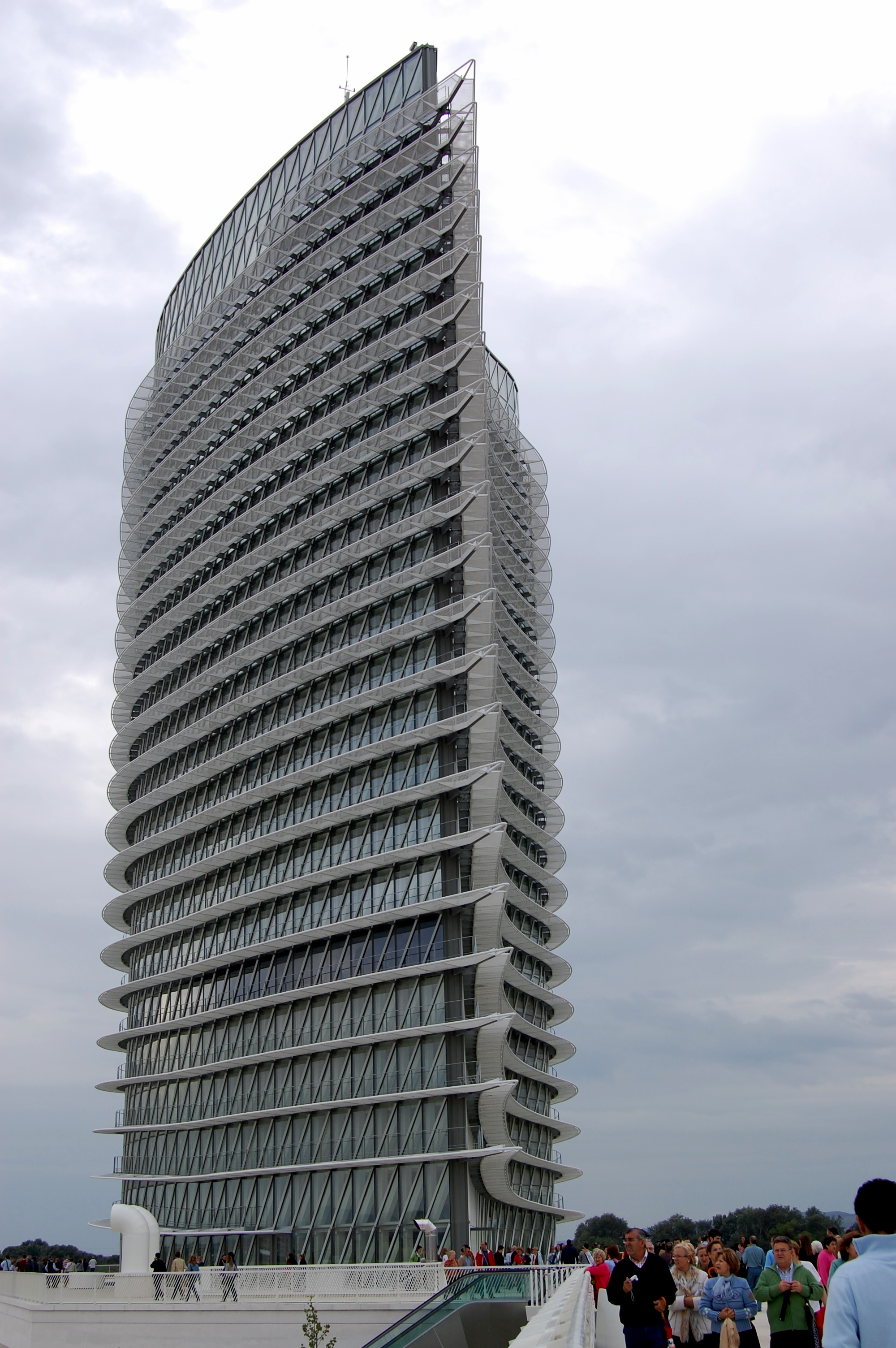 Torre del agua (Water Tower), one of the buildings at the Expo 2008 in Zaragoza, Spain